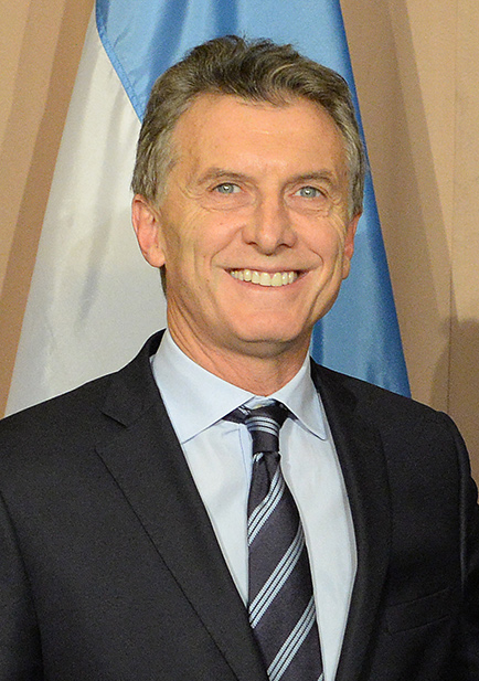 Argentine president Mauricio Macri during a meeting with US Vice President Joe Biden